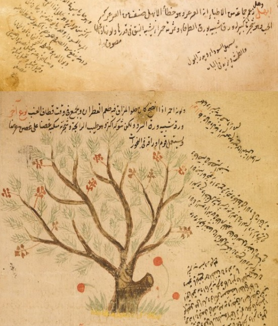 Part of 2 pages, of an Arabic manuscript about plants of unknown author, including the description and a drawing of the al-abhal tree (Juniperus sabina L.)